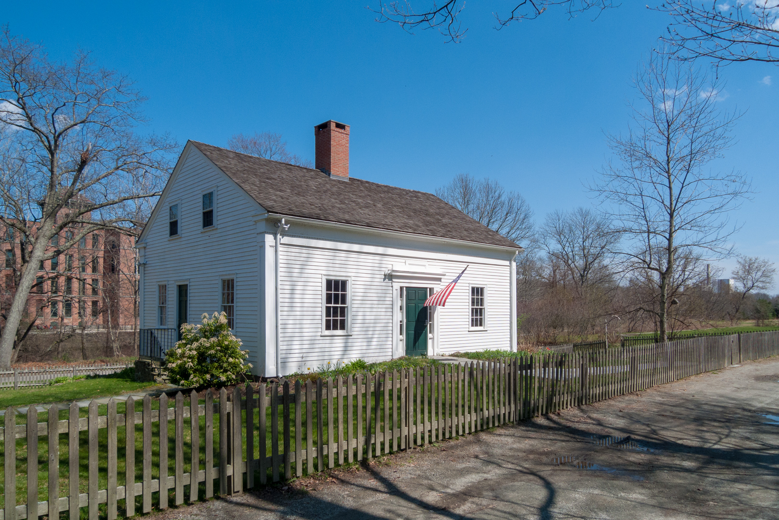 Captain Wilbur Kelly House Museum, part of the Old Ashton Historic District. Located inside Blackstone River State Park. Lincoln, Rhode Island.